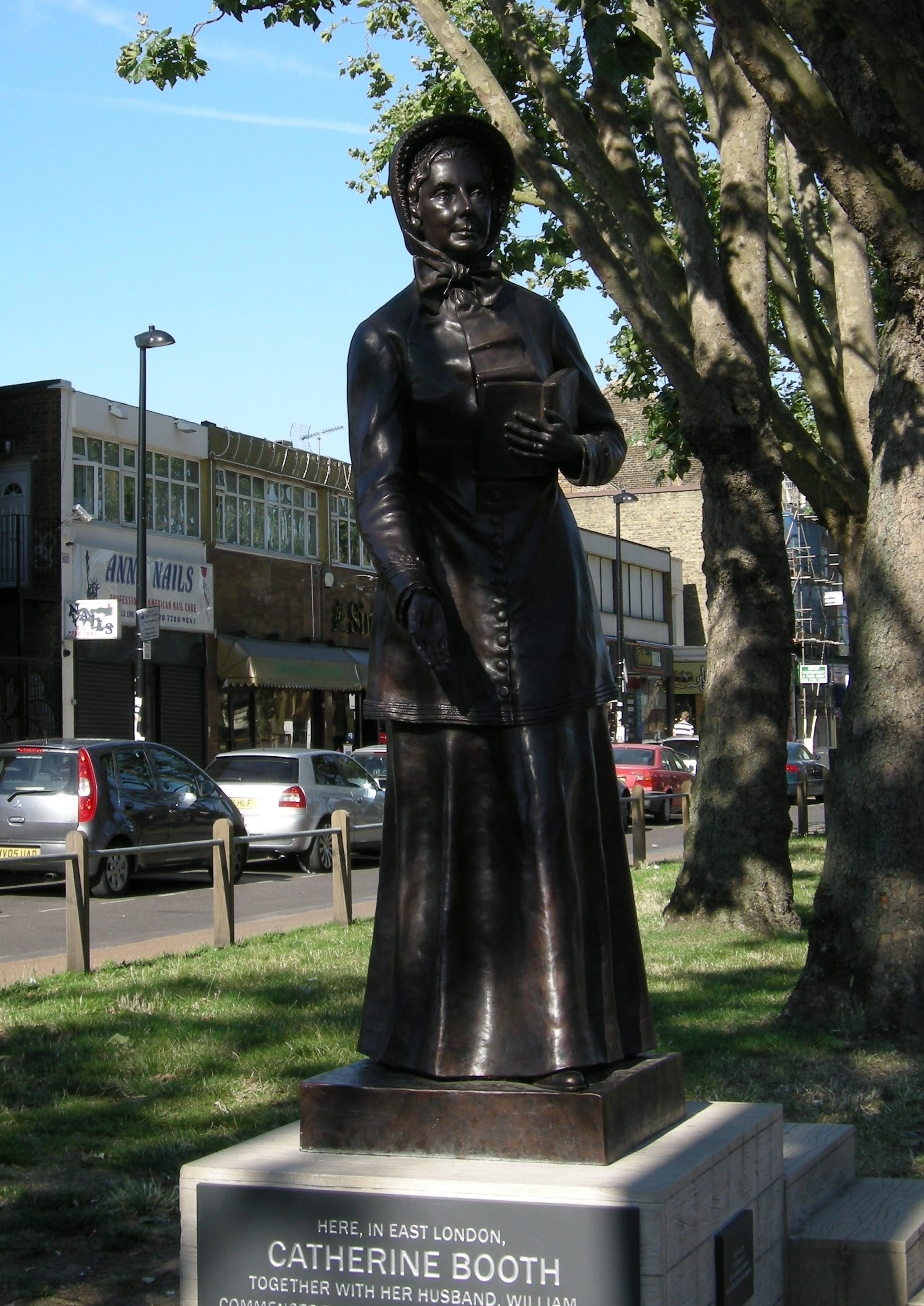 Statue of Catherine Booth in the Mile End Road, London, close to the site of the first Salvation Army meeting (2 July 1865). The statue was donated by the women of the Salvation Army in the United States of America, modelled from a 1929 sculpture by George Edward Wade, and unveiled on 2 July 2015, the 150th anniversary of the Salvation Army. Full inscription reads: "Here in East London, Catherine Booth, together with her husband, William, commenced the work of the Salvation Army July 1865. This statue was unveiled by Commissioner Silvia Cox and Commissioner Nancy Roberts on 2nd July 2015, the 150th anniversary of the Salvation Army".